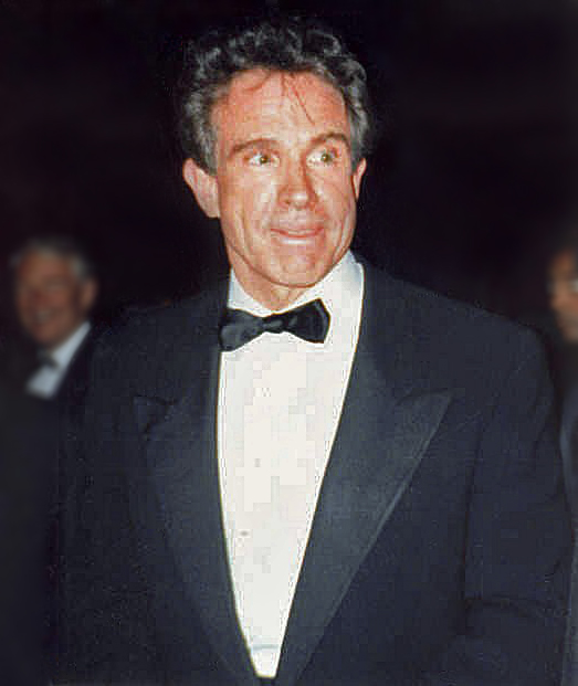 Photo of Warren Beatty at the Academy Awards.